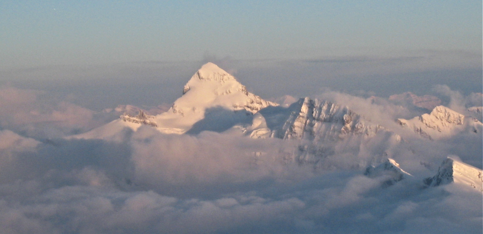 Mount Forbes, Canadian Rockies